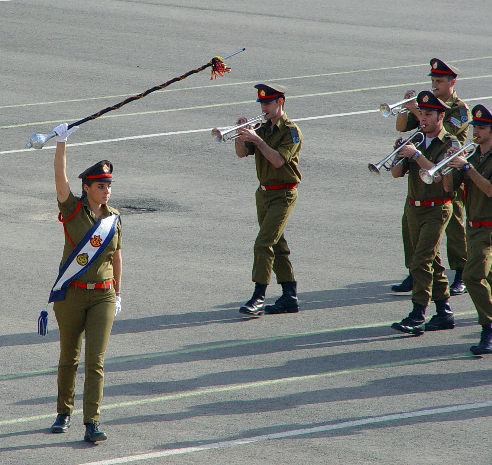 Israeli military band leader with baton